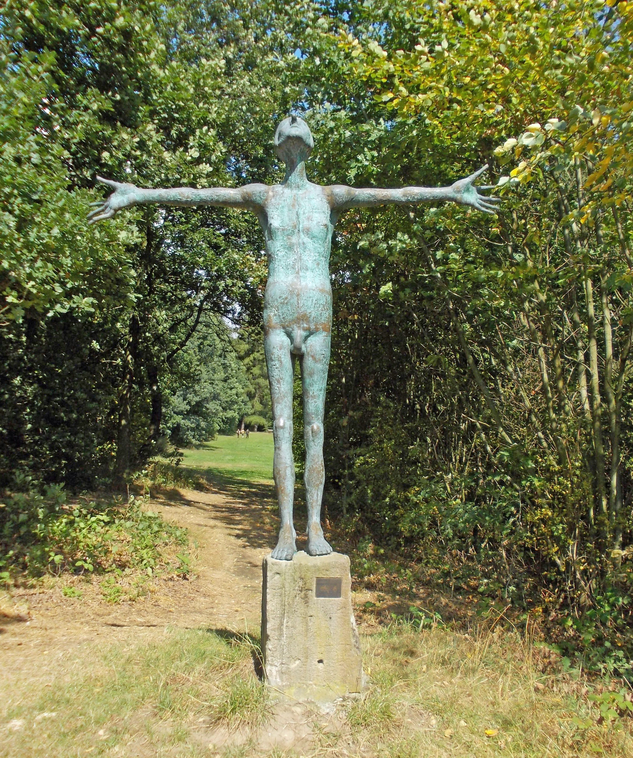 Mildenfurth Cross Man by Volkmar Kühn, a memorial to the 2002 floods in Jutta Park near Höfgen (Grimma, Leipzig district, Saxony)